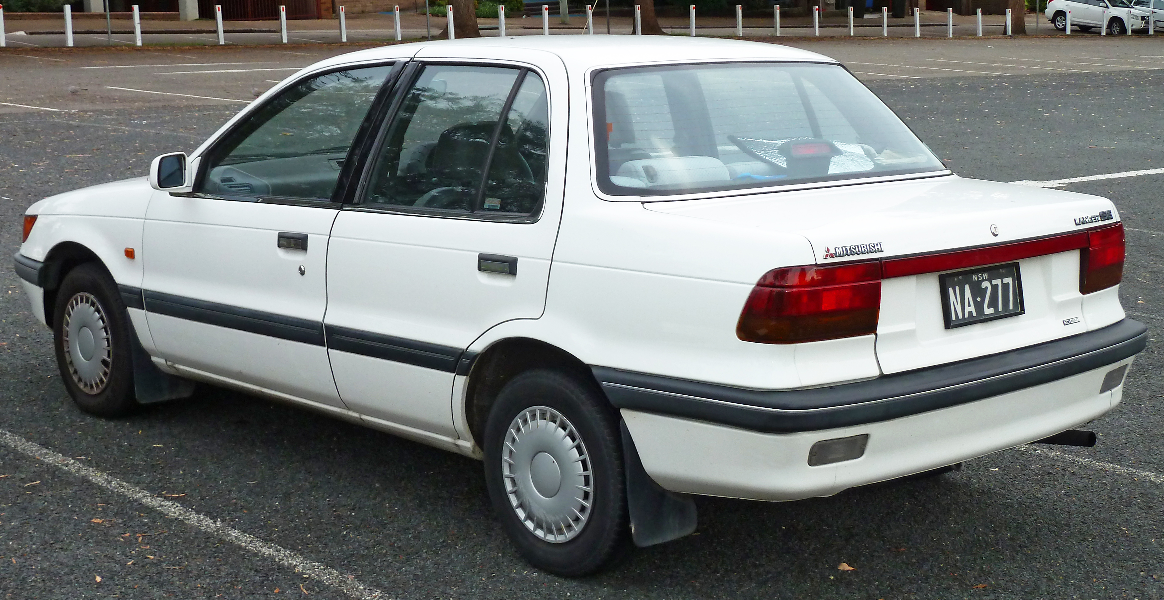 1988 Mitsubishi Lancer (CA) SE sedan. Photographed in Sutherland, New South Wales, Australia.